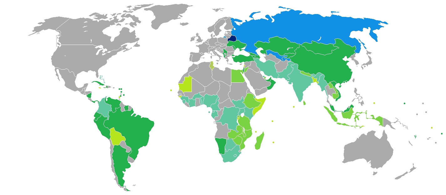 Visa requirements for Belarusian citizens Belarus Visa free Visa issued upon arrival eVisa Visa available both on arrival or online Visa-free for voucher holders Visa required prior to arrival